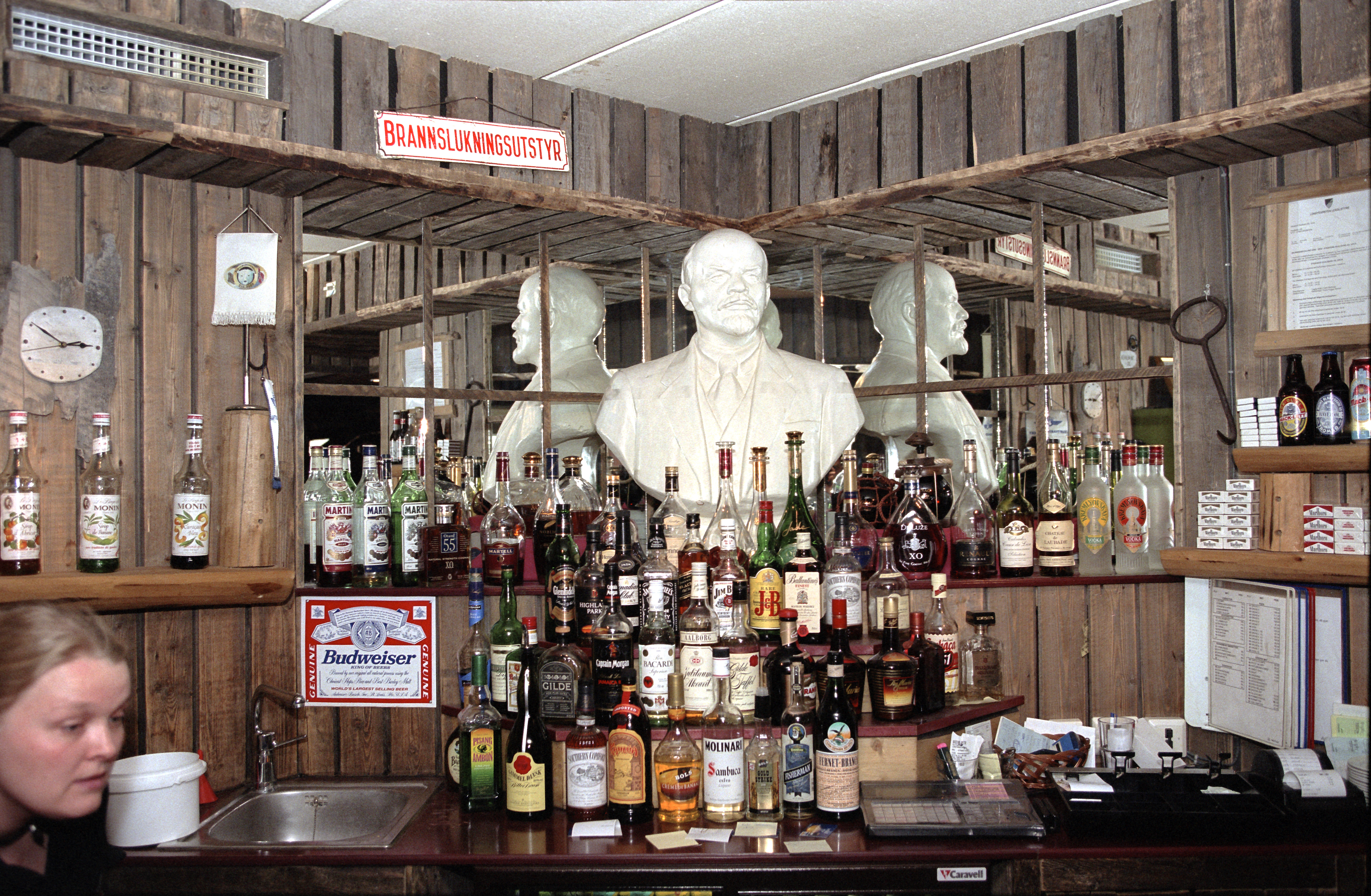 Longyearbyen in restaurant, Spitsbergen